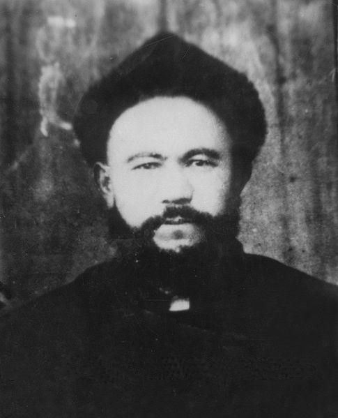 Sabit Damolla Abdulbaki, Uyghur statesman from Atush who served as the prime minister of the Islamic Republic of East Turkistan